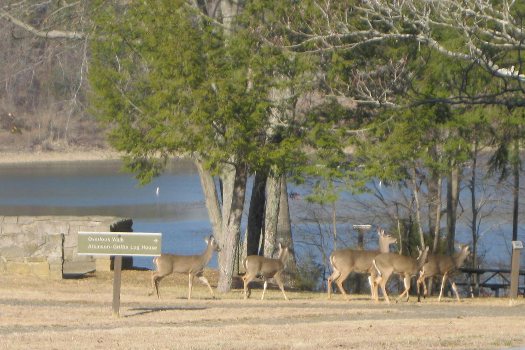 Five whitetail deer take a stroll around the Green River Lake Visitor Center near the overlook. Photographer: Andrea O'Bryan